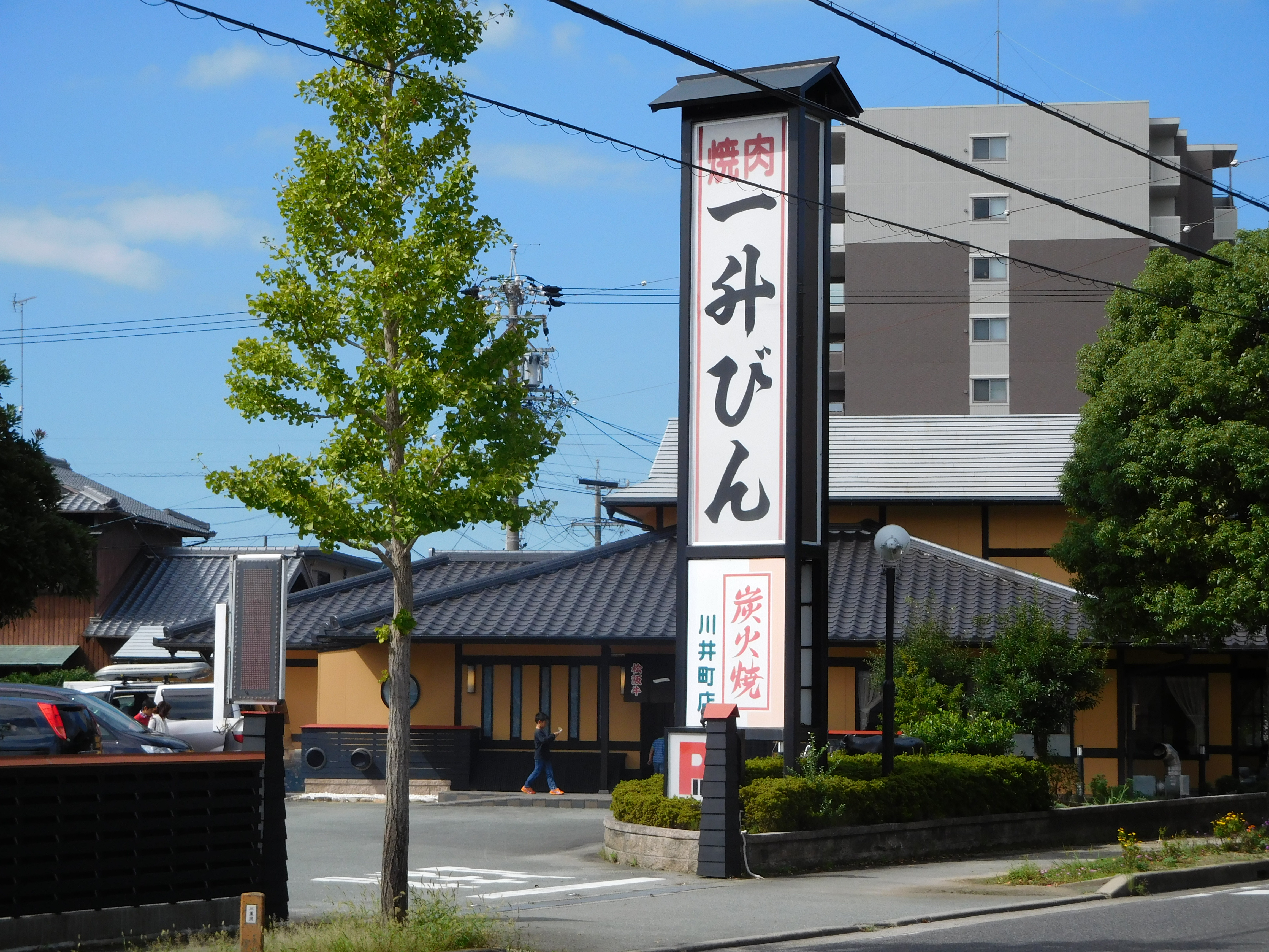 This is the Isshobin Kawaicho shop, which is a Yakiniku shop in Matsusaka, Mie, Japan.